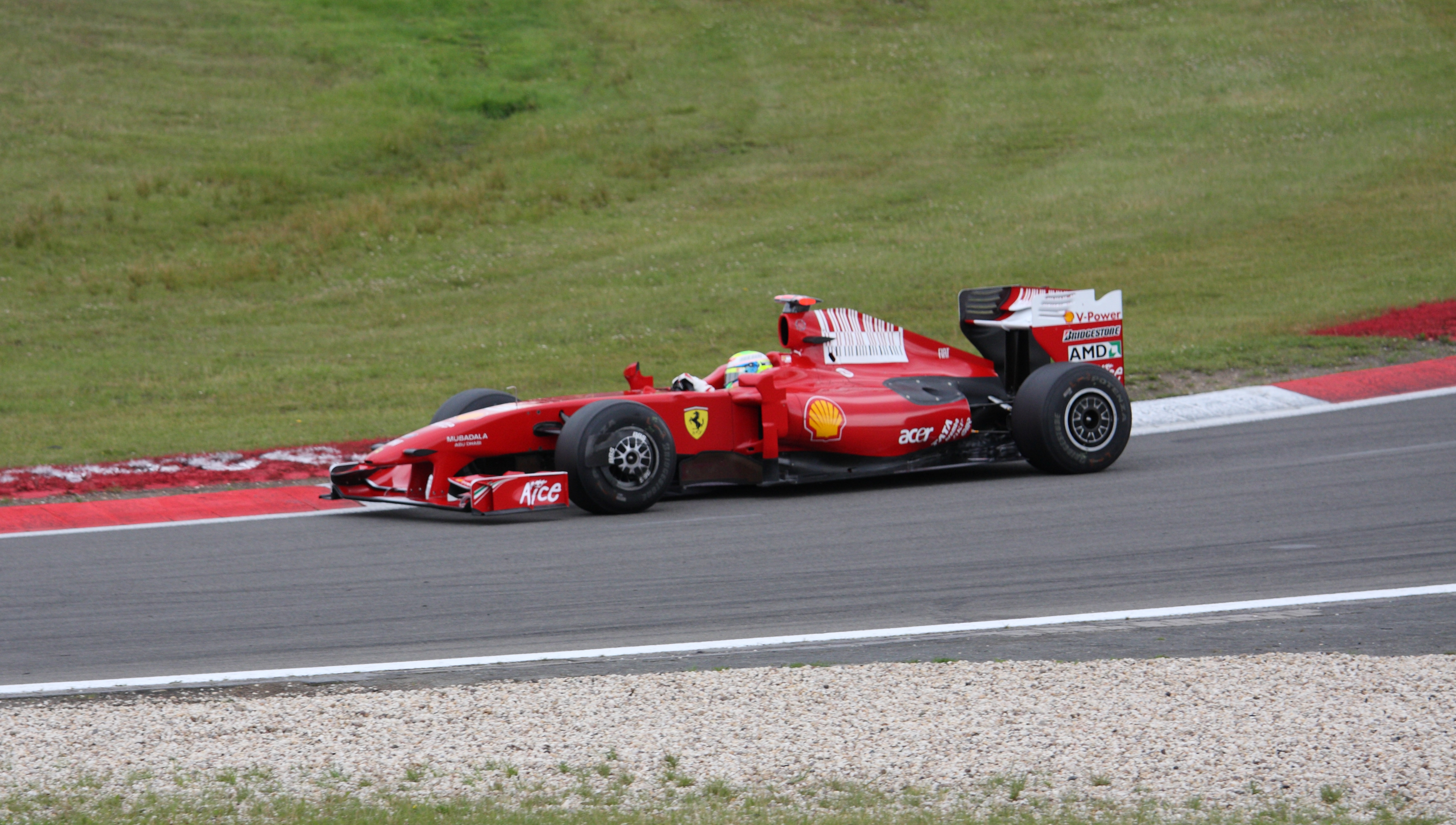 Felipe Massa driving for Scuderia Ferrari at the 2009 German Grand Prix.